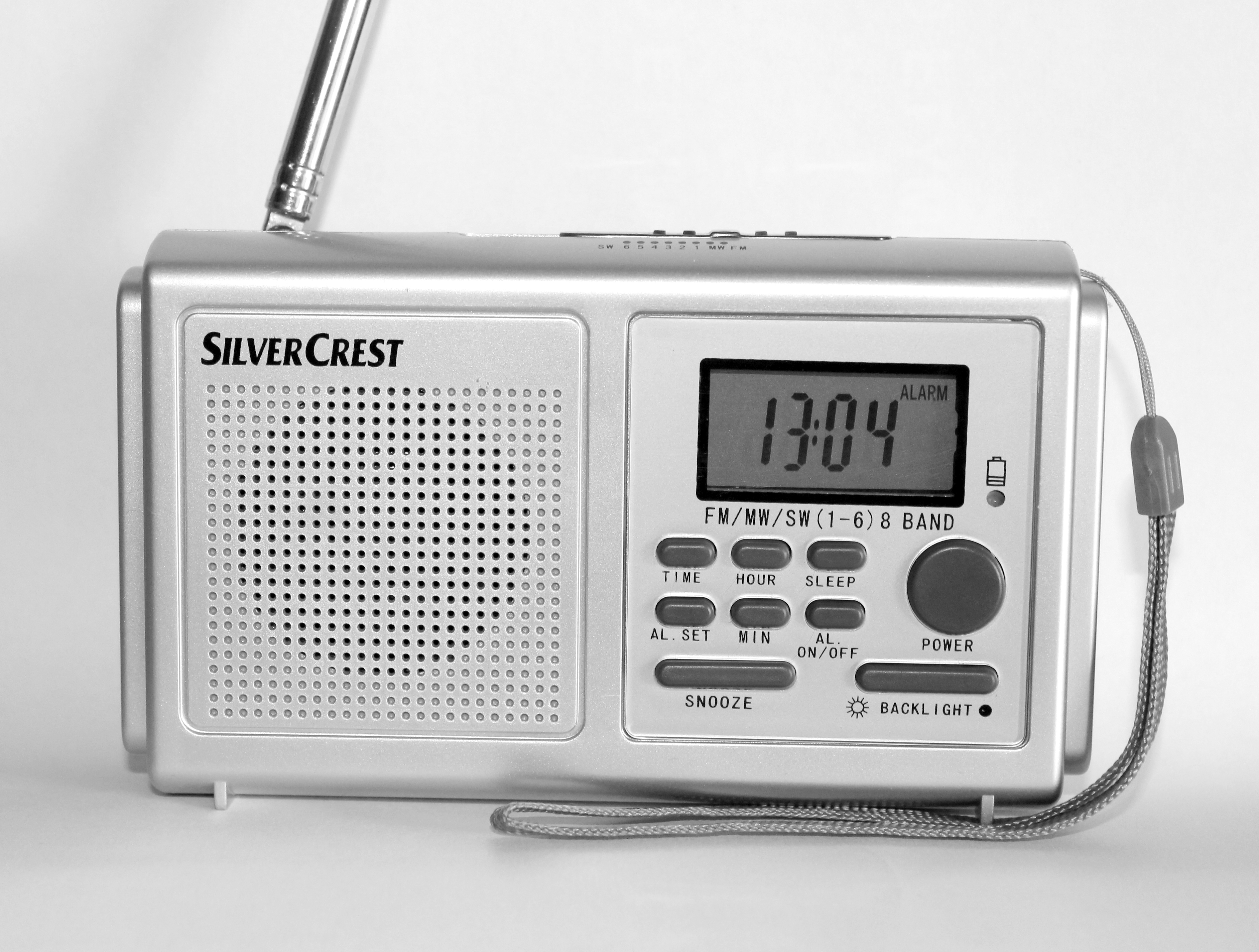 a portable radio receiver